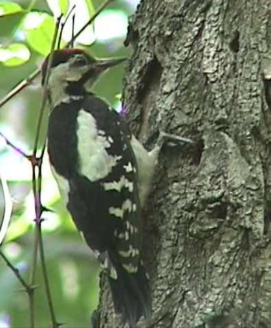 Dendrocopos syriacus, Syrian Woodpecker, Сирийски пъстър кълвач, Dobrich, Bulgaria, June 23, 2003, Ivan Petrov